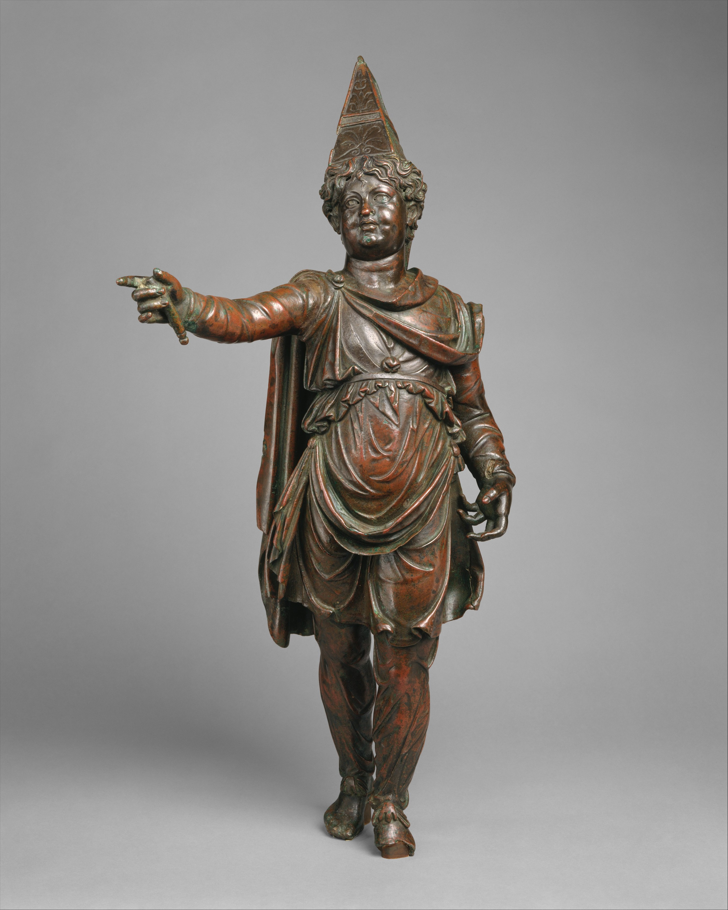 Greek, Ptolemaic or Roman; Statue of a boy in tiara and oriental dress; Bronzes. Recently identified as possibly being Alexander Helios, son of Cleopatra and Mark Antony.